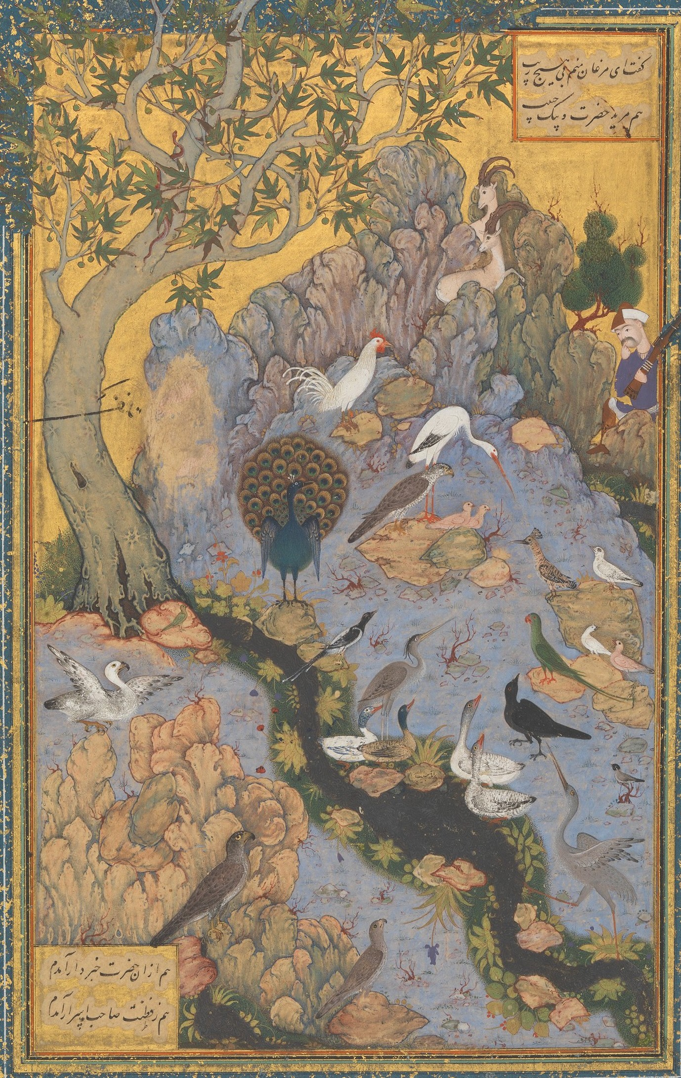 Detail of cover from a manuscript of Mantiq al-Tayr (Conference of the Birds), by Attar of Nishapur (Farid al-Din Attar), Isfahan, Iran, ca. 1610